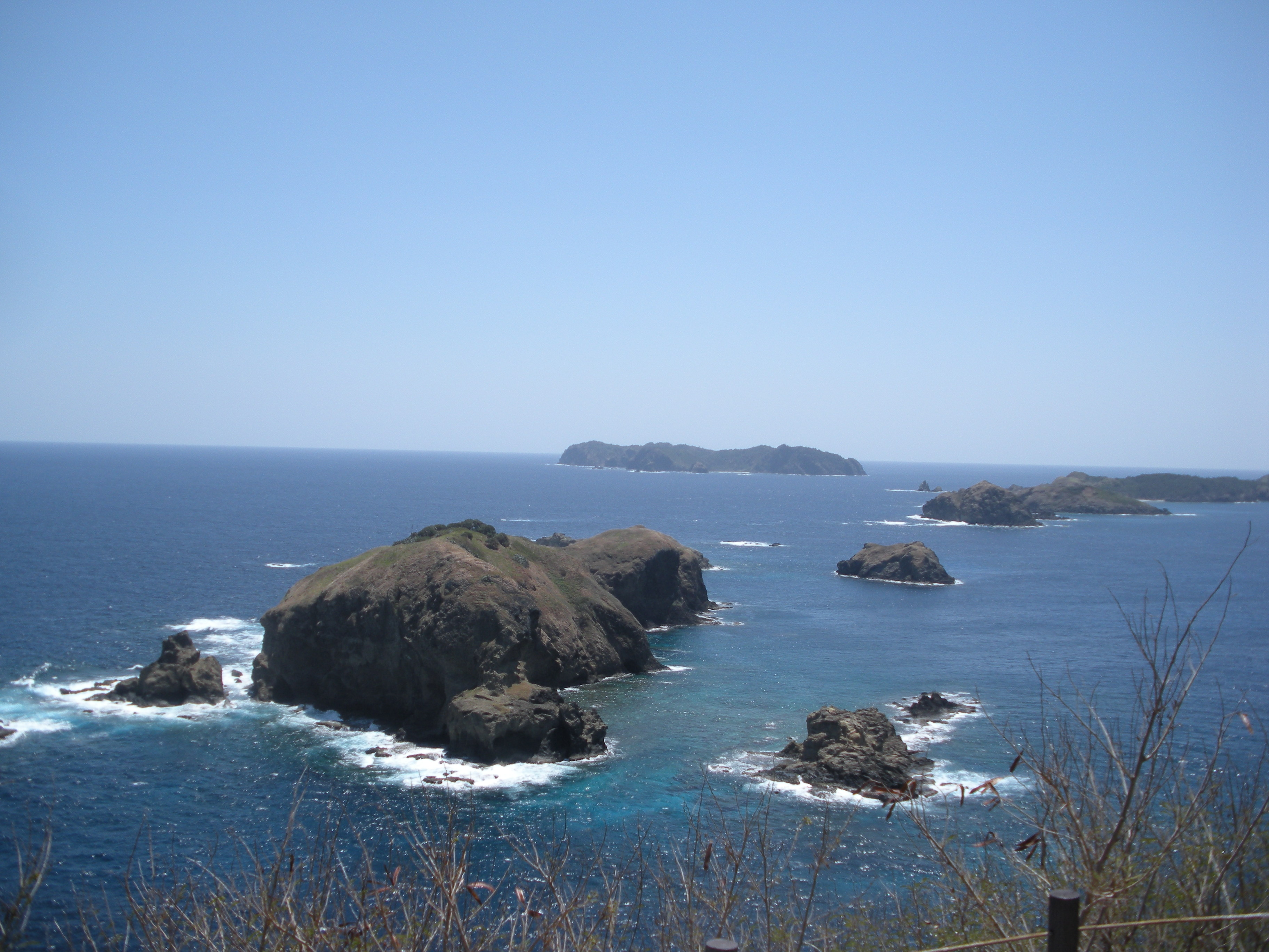 Katsuodorijima and Tairajima,Anejima in japan Bonin Island